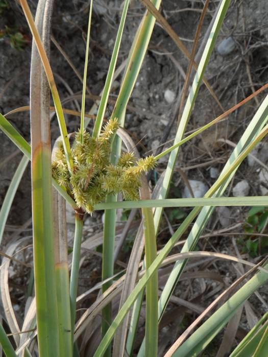 Planta herbácea de la familia Cyperaceae, recolectada en duna costera, el 19 de junio de 2013 en La Cruz de Huanacaxtle, Nayarit.